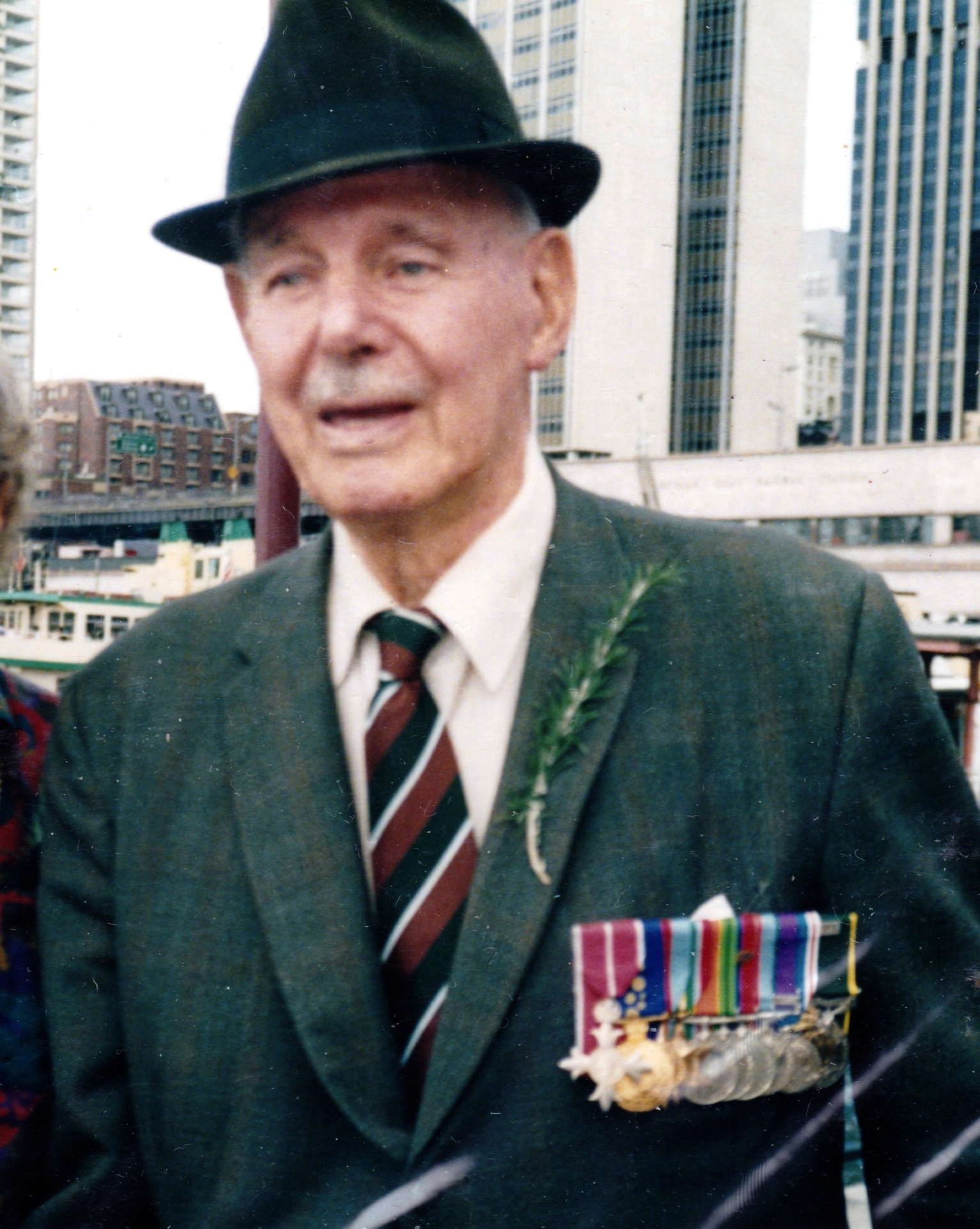 Profile picture for Wikipedia article "Reginald Newton"